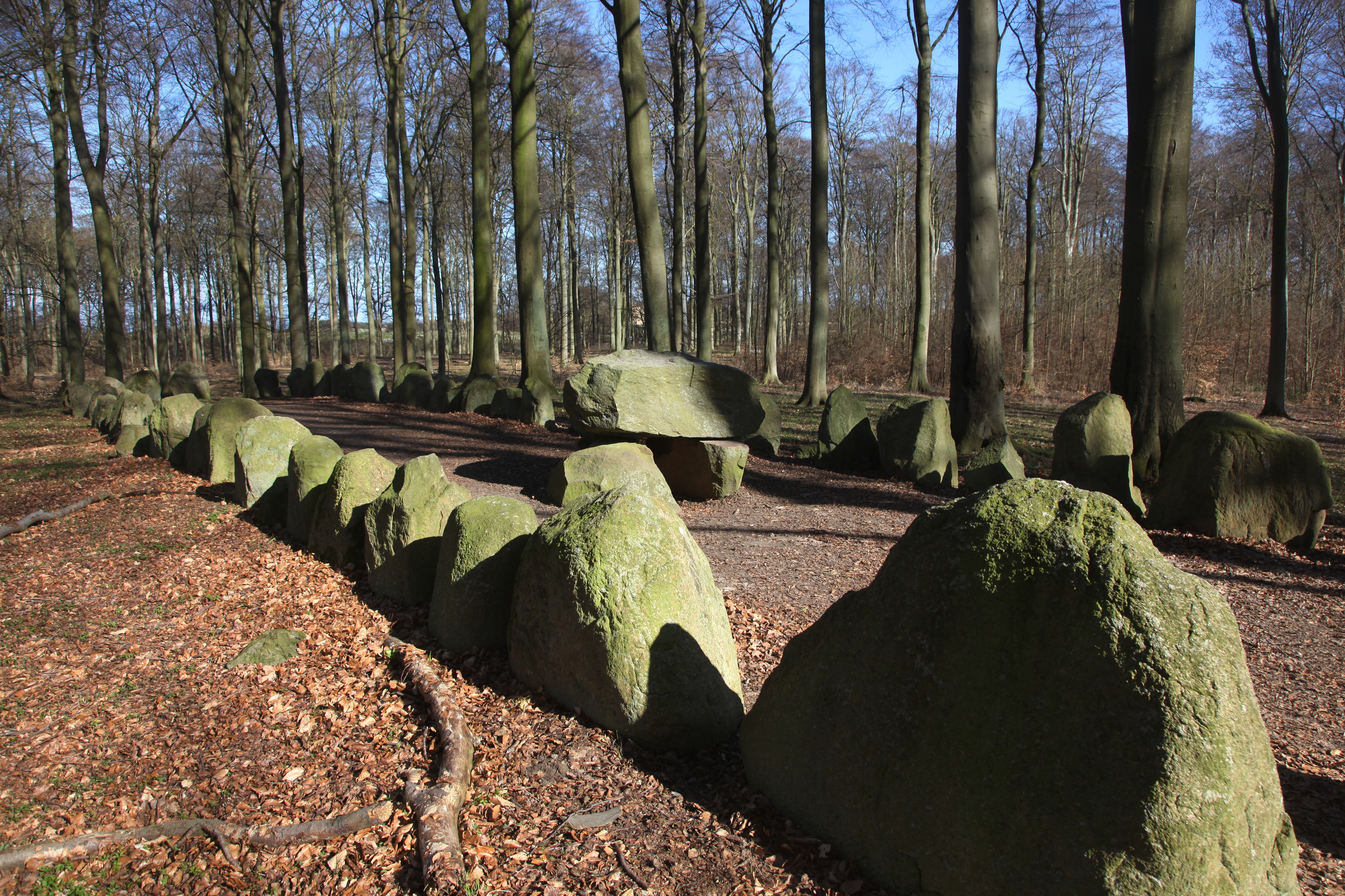 Long dolmen near Korsør, Denmark. It was buildt around 4000 B.C. It is 40m long and 7m wide. It has an east/west direction, consists of 64 stones as the border. The chamber is 1.2M by 0.6m with entrance from the west.